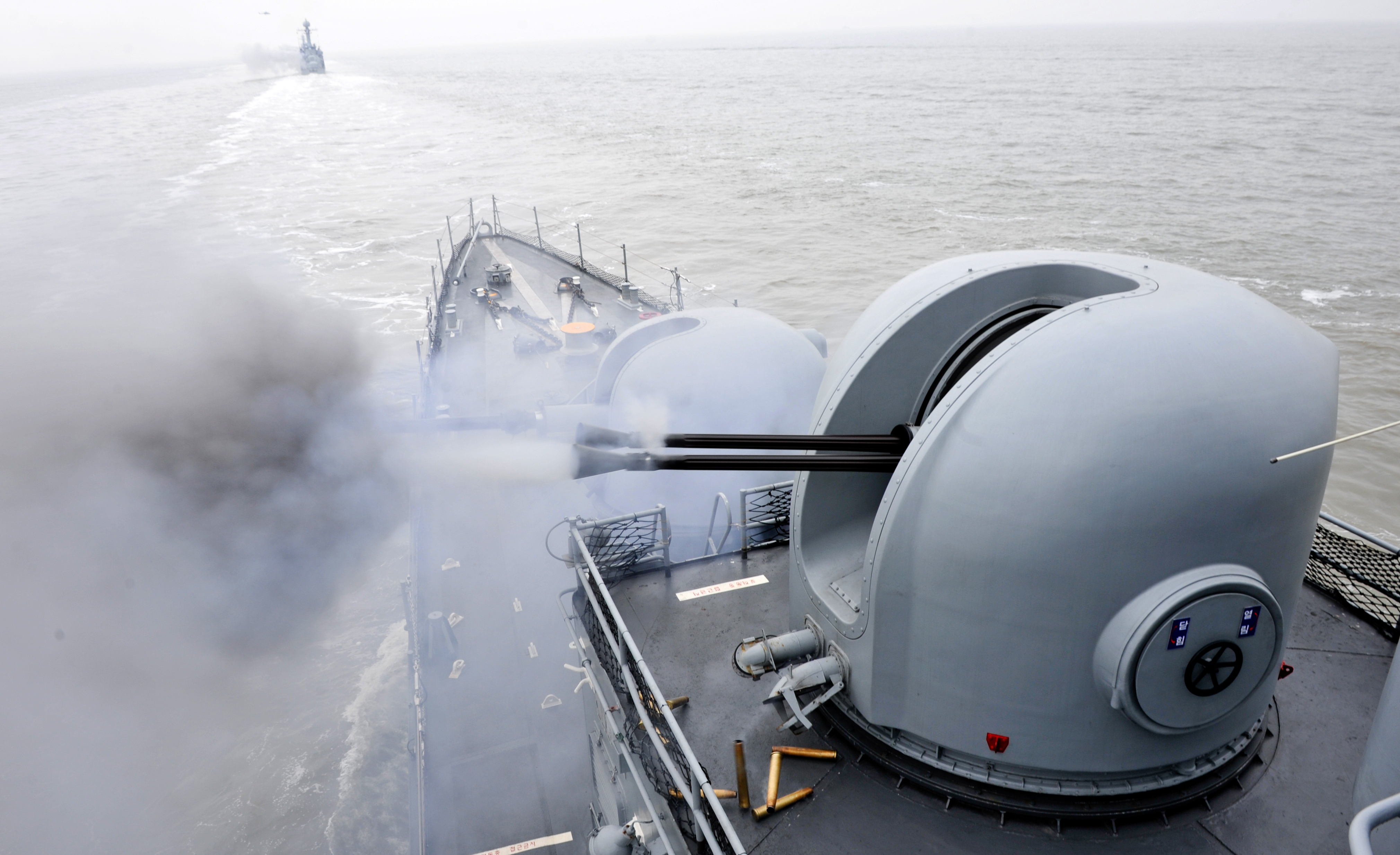 2014.3.19 해군 2함대 천안함 4주기 해상기동 훈련 Republic of Korea Navy 2nd Fleet Command